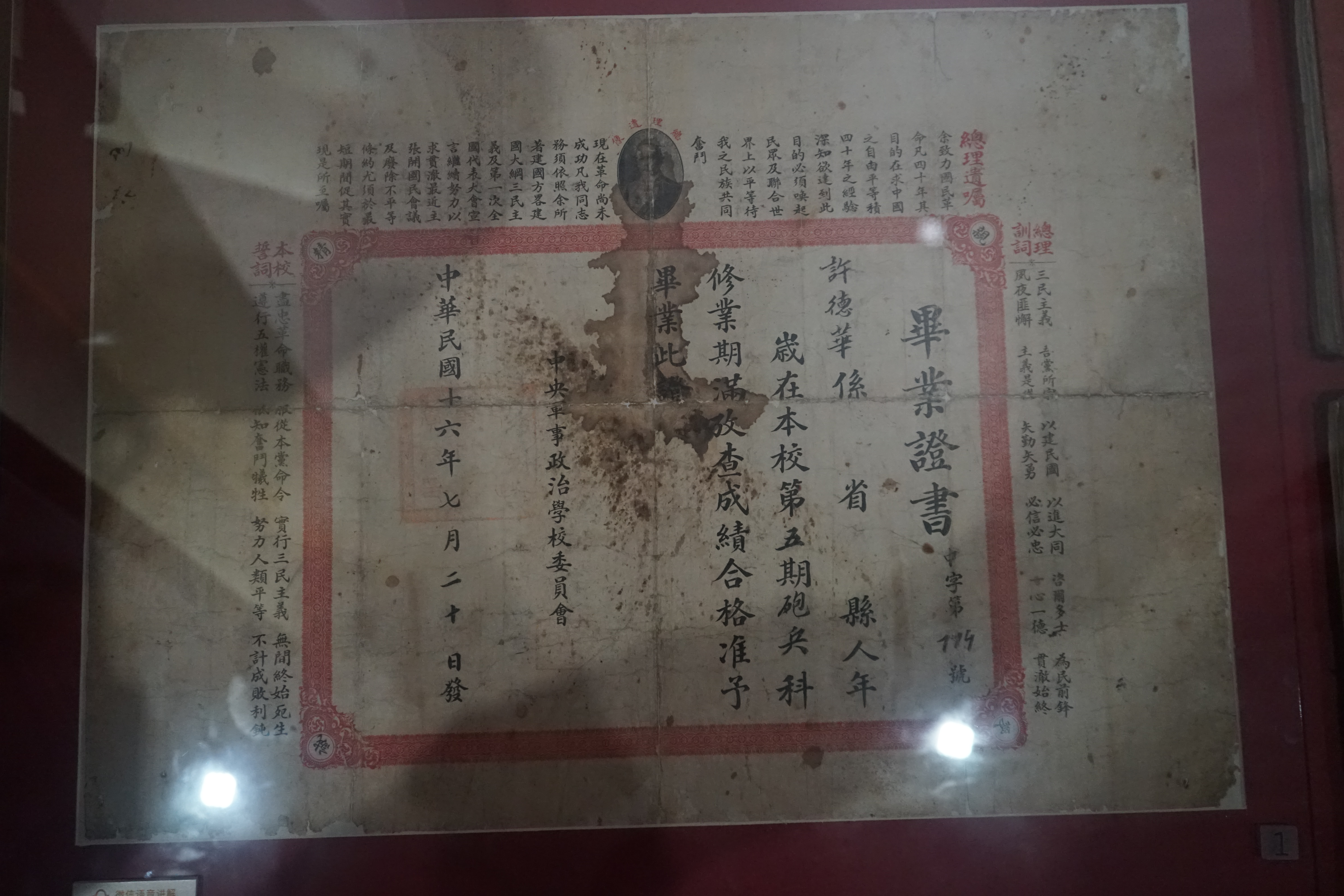 Xu Dehua (Xu Guangda)'s Whampoa diploma.